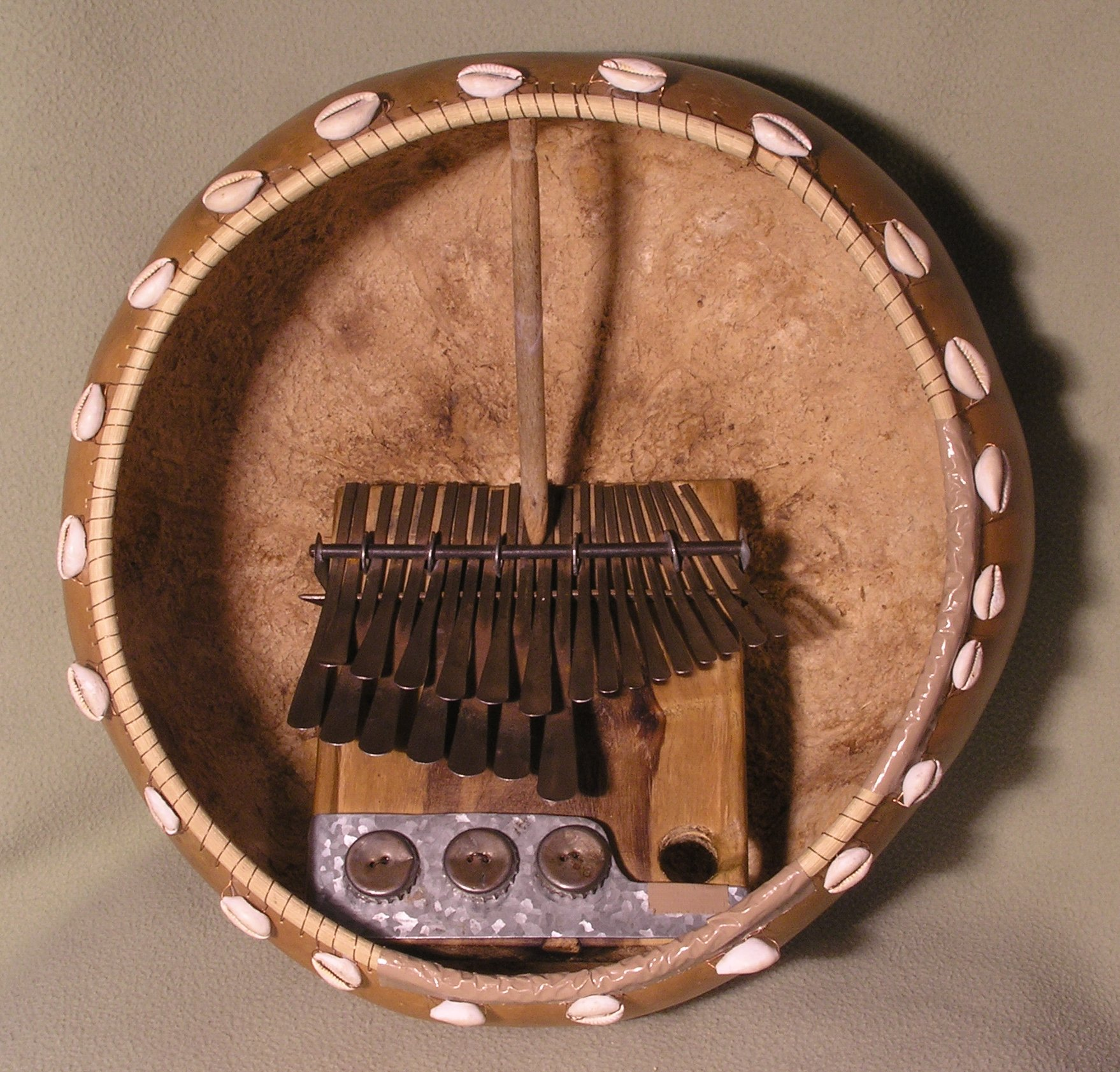 An Mbira Dzavadzimu in a deze, taken with an Olympus C-770 digital camera on 2005-11-11, cropped using the GIMP.